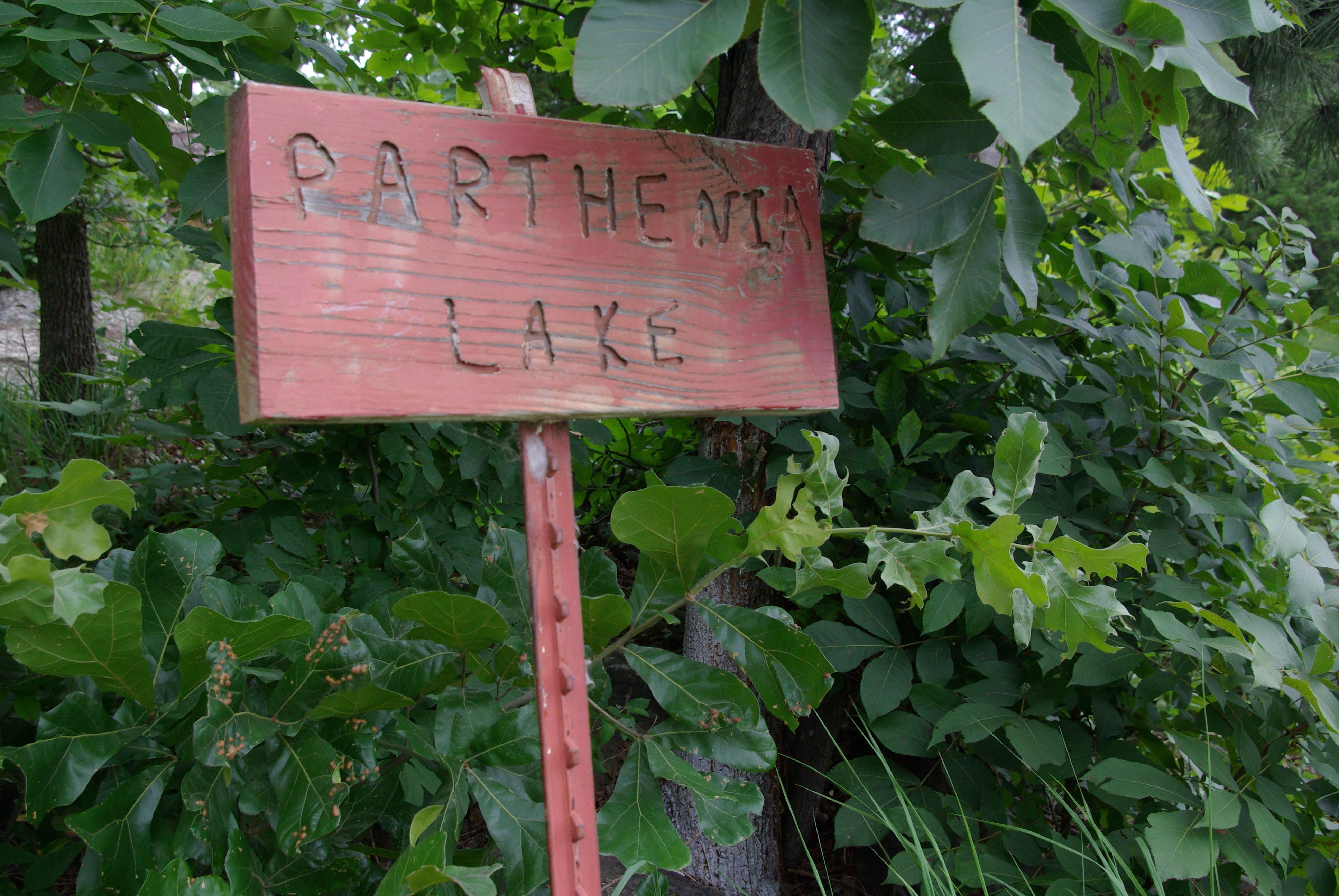 Parthenia Lake at Camp Loughridge